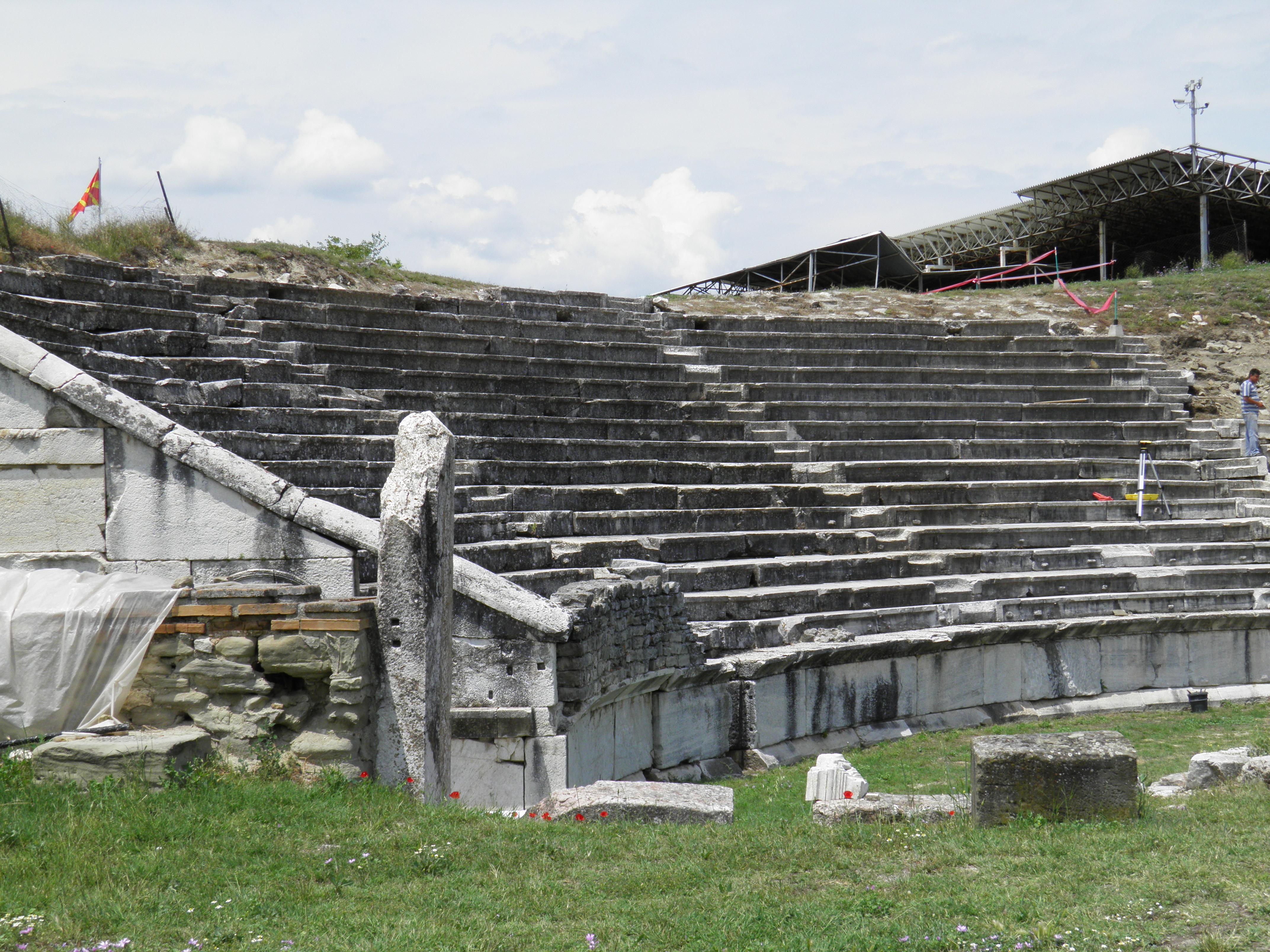 Stobi, Macedonia